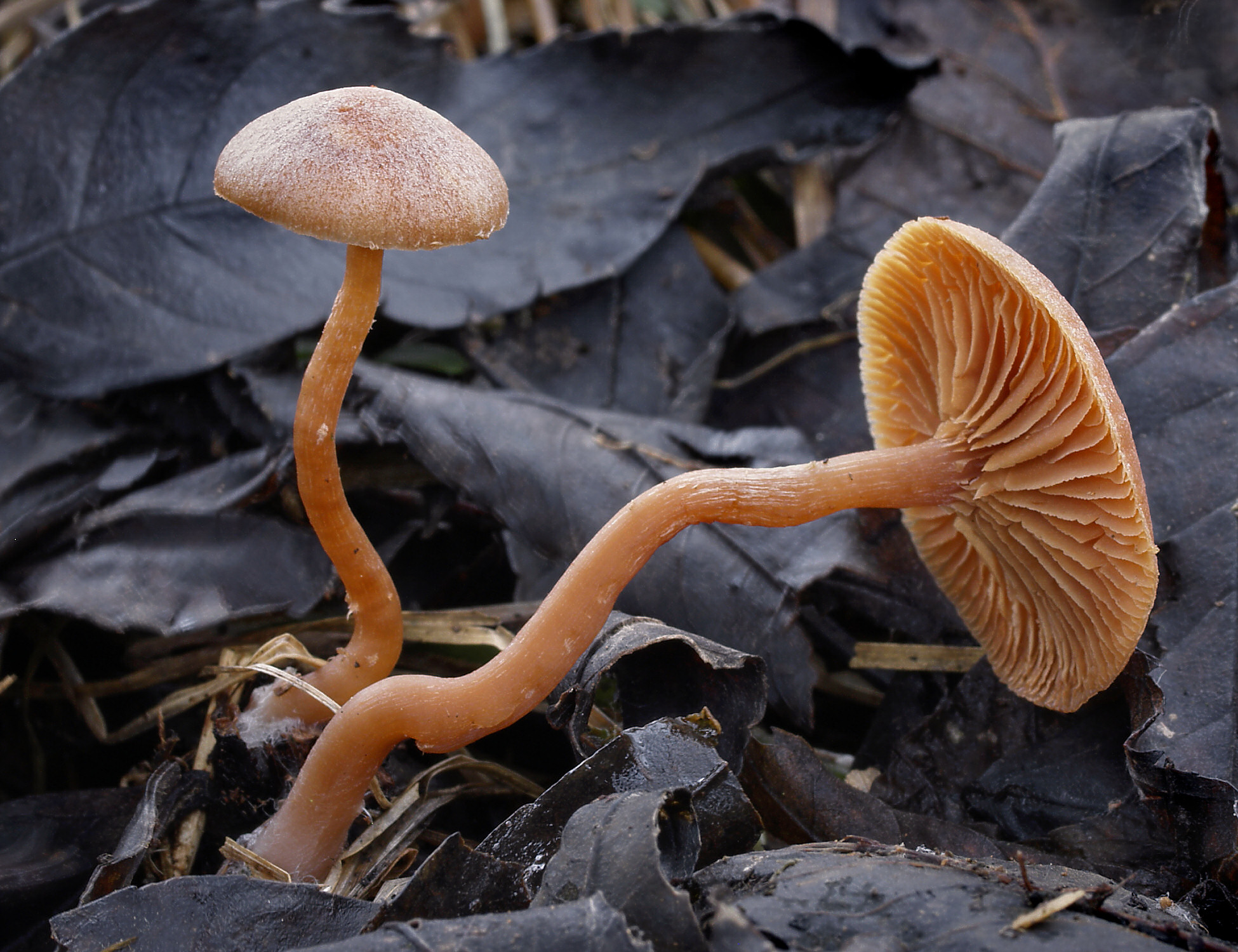 Scurfy Twiglet (Tubaria furfuracea)